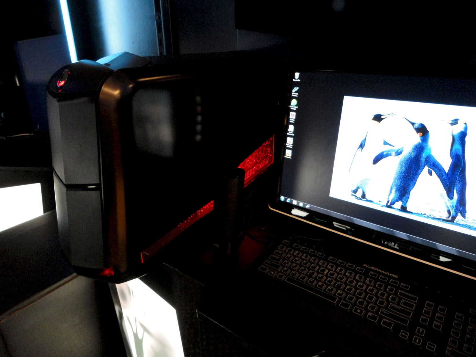 Alienware Aurora computer.